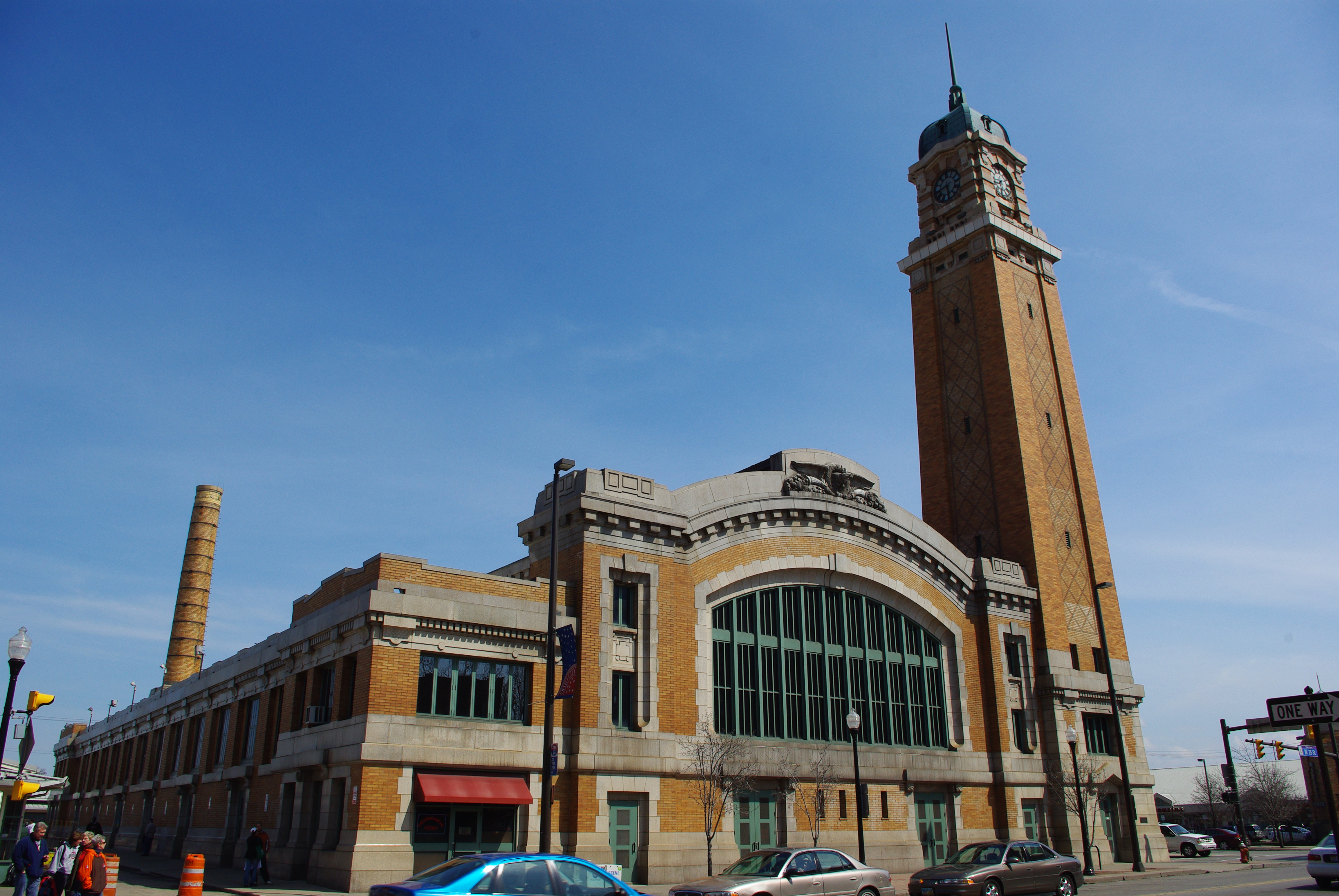 West Side Market in Cleveland, Oh - Looking from across 25th St.